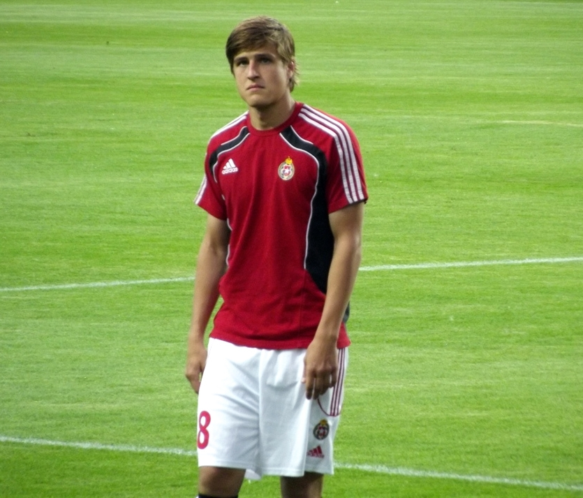 Cezary Wilk